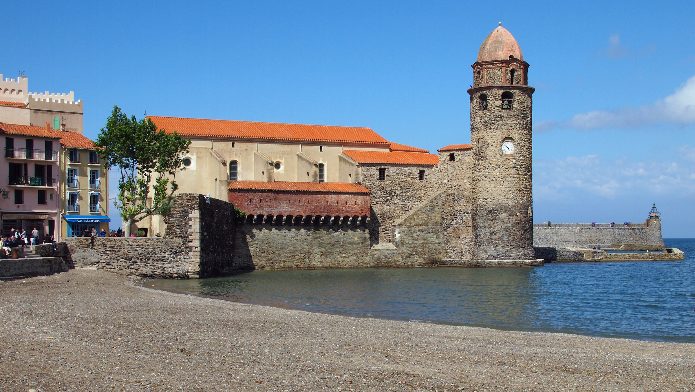 Collioure